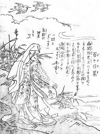 Dodomeki (百々目鬼, the ghost of a pickpocket, her arms are covered in eye) from the Konjaku Gazu Zoku Hyakki (今昔画図続百鬼)